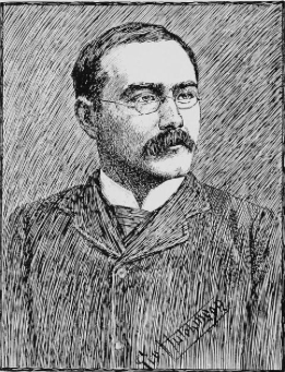 Rudyard Kipling by George Wylie Hutchinson